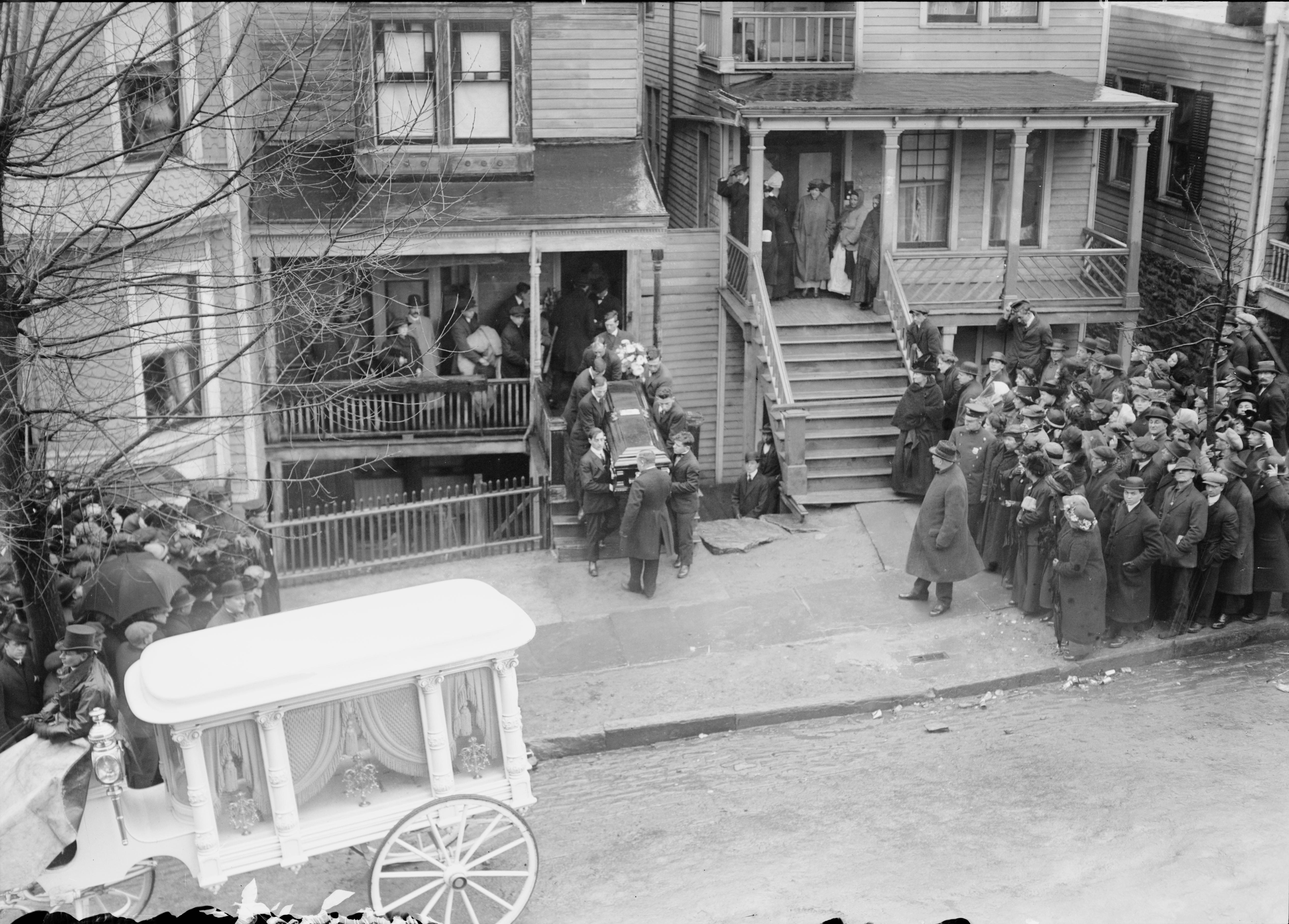 Bain News Service,, publisher. Body of Dago Frank being carried to hearse in New York City [between ca. 1910 and ca. 1915] 1 negative : glass ; 5 x 7 in. or smaller. Notes: Title from unverified data provided by the Bain News Service on the negatives or caption cards. Forms part of: George Grantham Bain Collection (Library of Congress). Format: Glass negatives. Repository: Library of Congress, Prints and Photographs Division, Washington, D.C. 20540 USA, General information about the Bain Collection is available at Persistent URL: Call Number: LC-B2- 3025-8